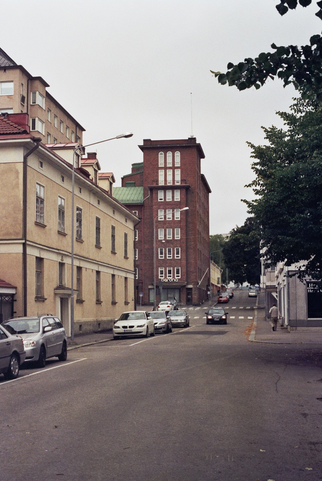 Aleksanterinkatu, a street in Kyttälä, central Tampere, Finland.